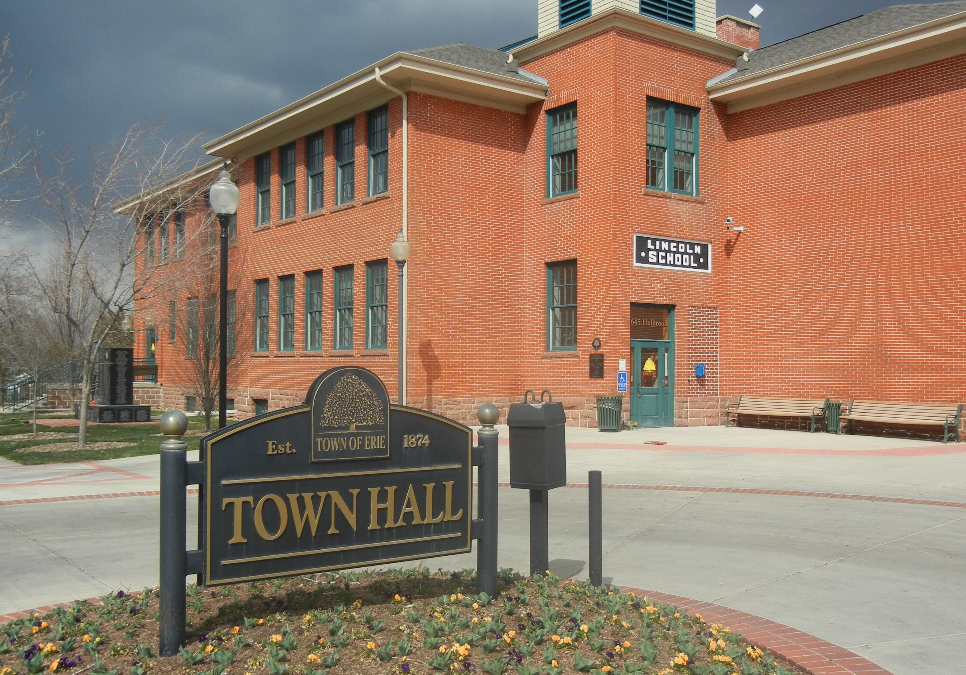 City Hall of Erie, Colorado